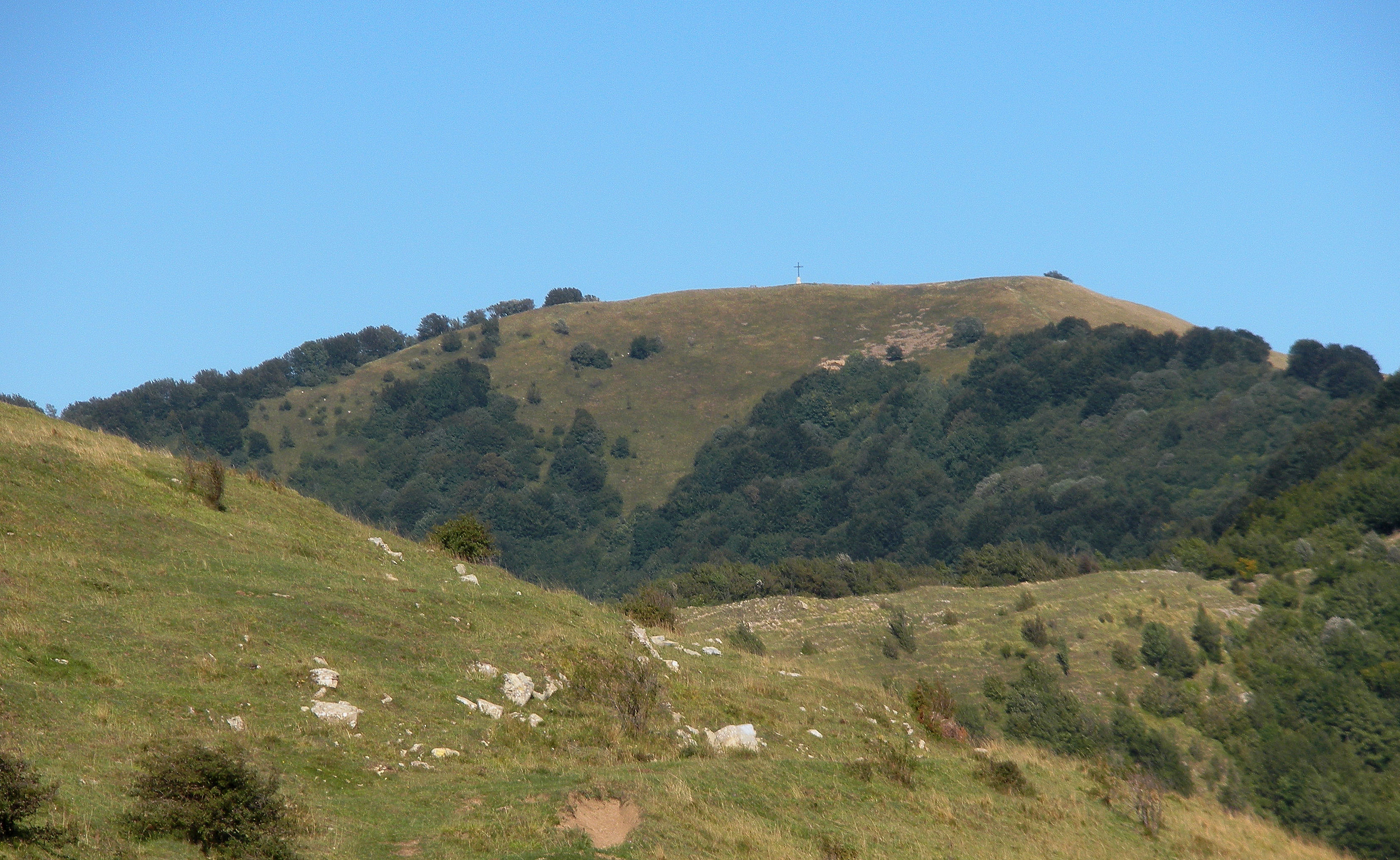 View of Monte Buio (province of Genoa, Italy)